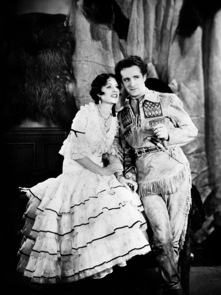 Jeanne Helbling & Gaston Glass in La piste des géants (french version of The Big Trail, 1930) - publicity still